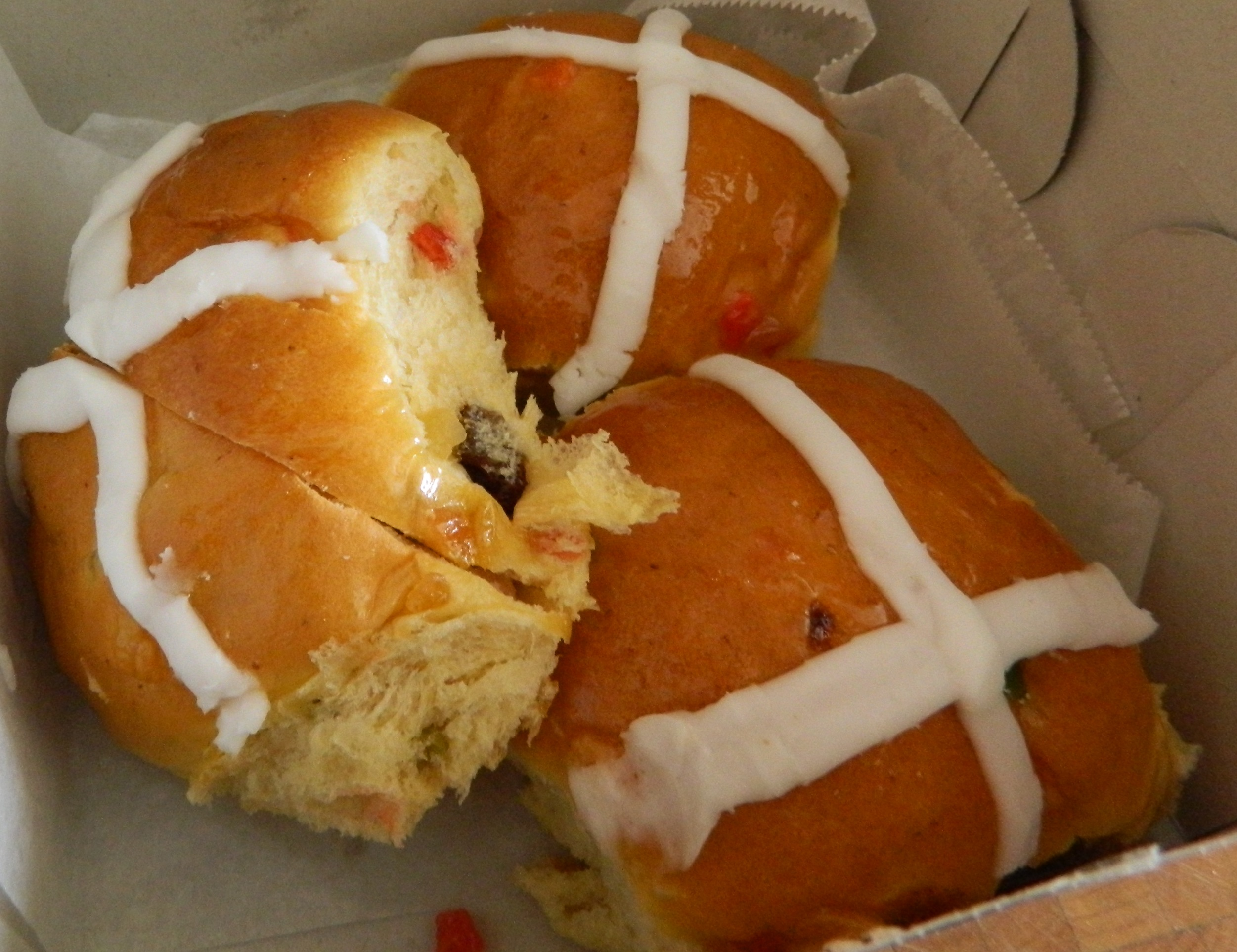 Hot cross buns from a California bakery